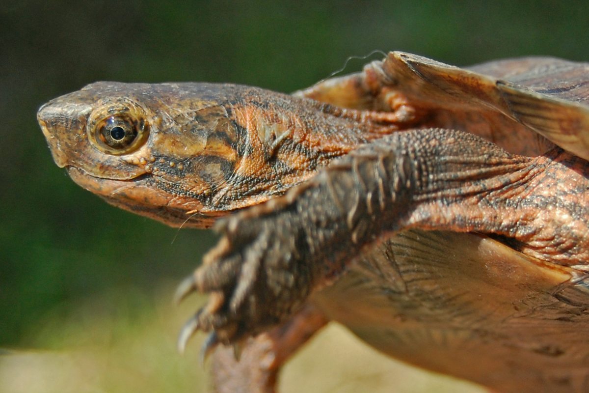 Young Cyclemys dentata (carapace length 14cm). From Banten, West Java, Indonesia.